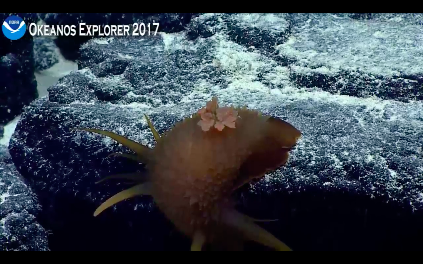 Bathydoris nudibranch from NOAA 2017 Okeanos expedition